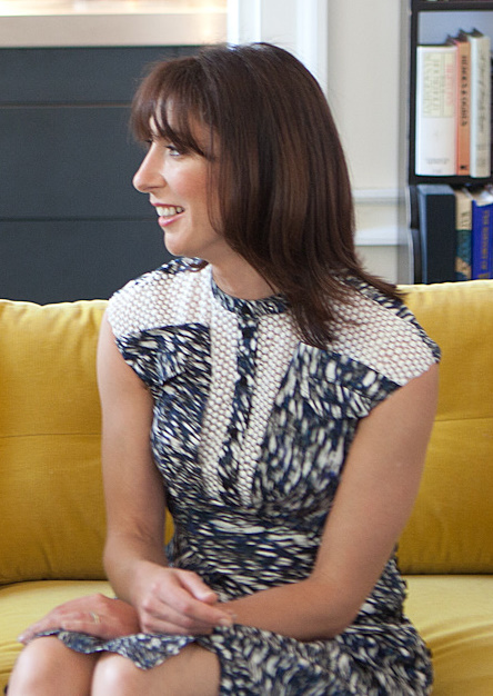 Samantha Cameron